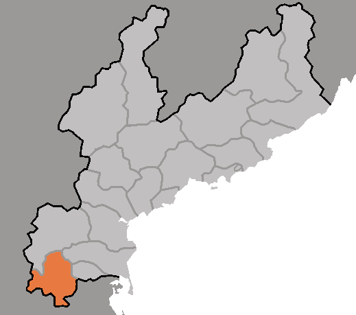 Map of Sudong, Hamgyong-namdo, DPRK, 2006